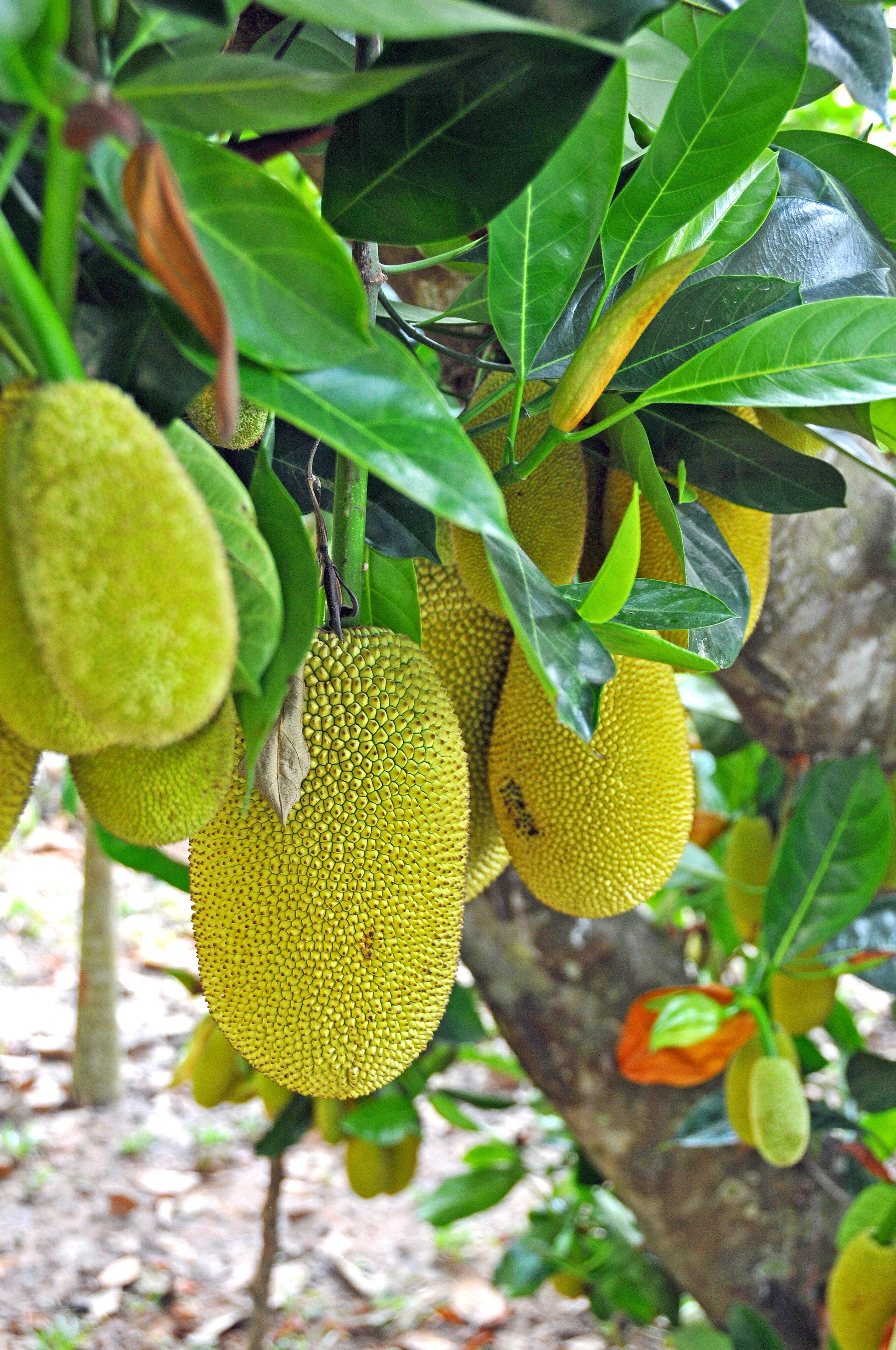 PLEASE, no multi invitations in your comments. Thanks. This is Jack fruit, it is a species of tree of the mulberry family. The jackfruit is something of an acquired taste, but it is very popular in many parts of the world. Vietnam, Cu Chi Tunnels, Ho Chi Minh City.